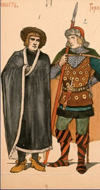 Costume designs for Hamlet in Maly Theatre, Moscow